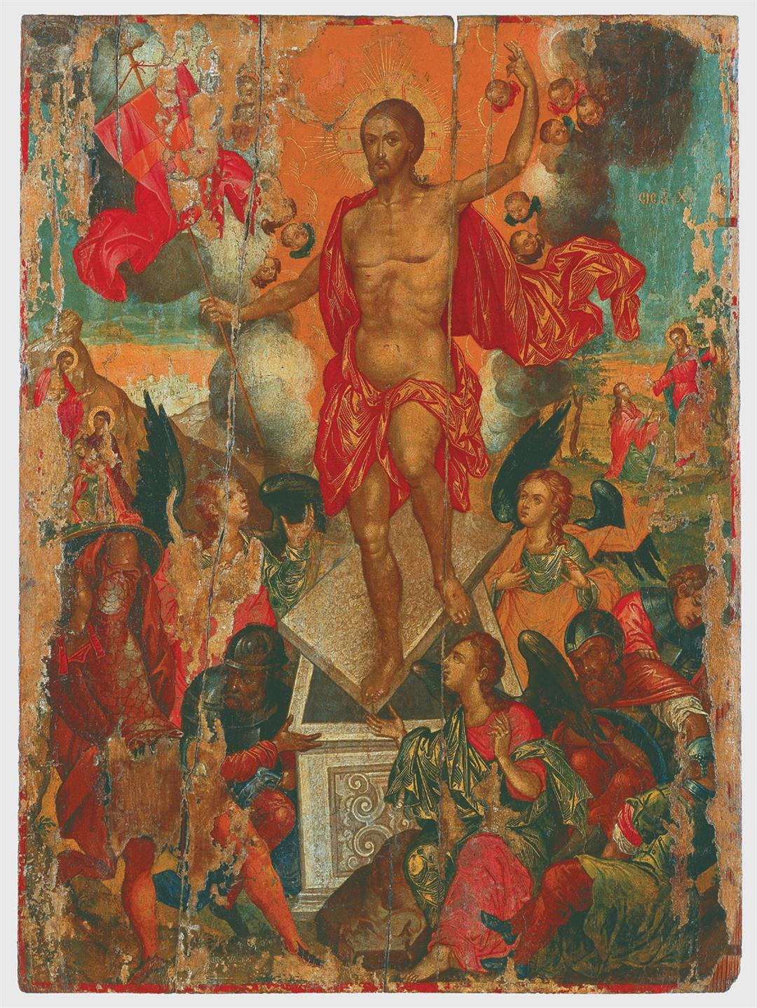 The Anastasis (Resurrection). According to an inscription, this icon was painted in 1679 by the Cretan artist Ilias Moskos. Origin: Kephallenia Measurement: 95 x 71 cm Exhibit Number: ΒΧΜ 01578